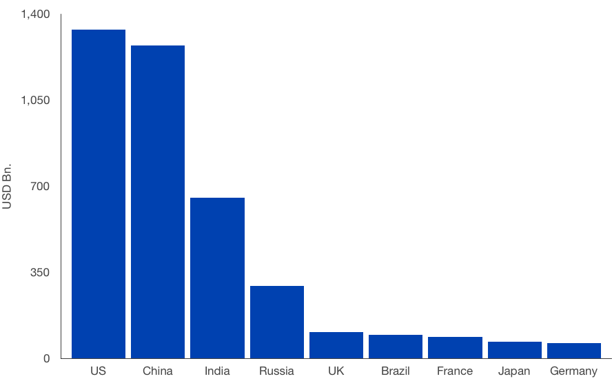 A graph of the 2014 military spending prediction by the UK Ministry of Denfence